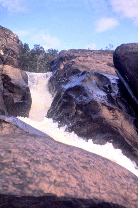 Photo of Tully Falls, Queensland, taken some time in 1959